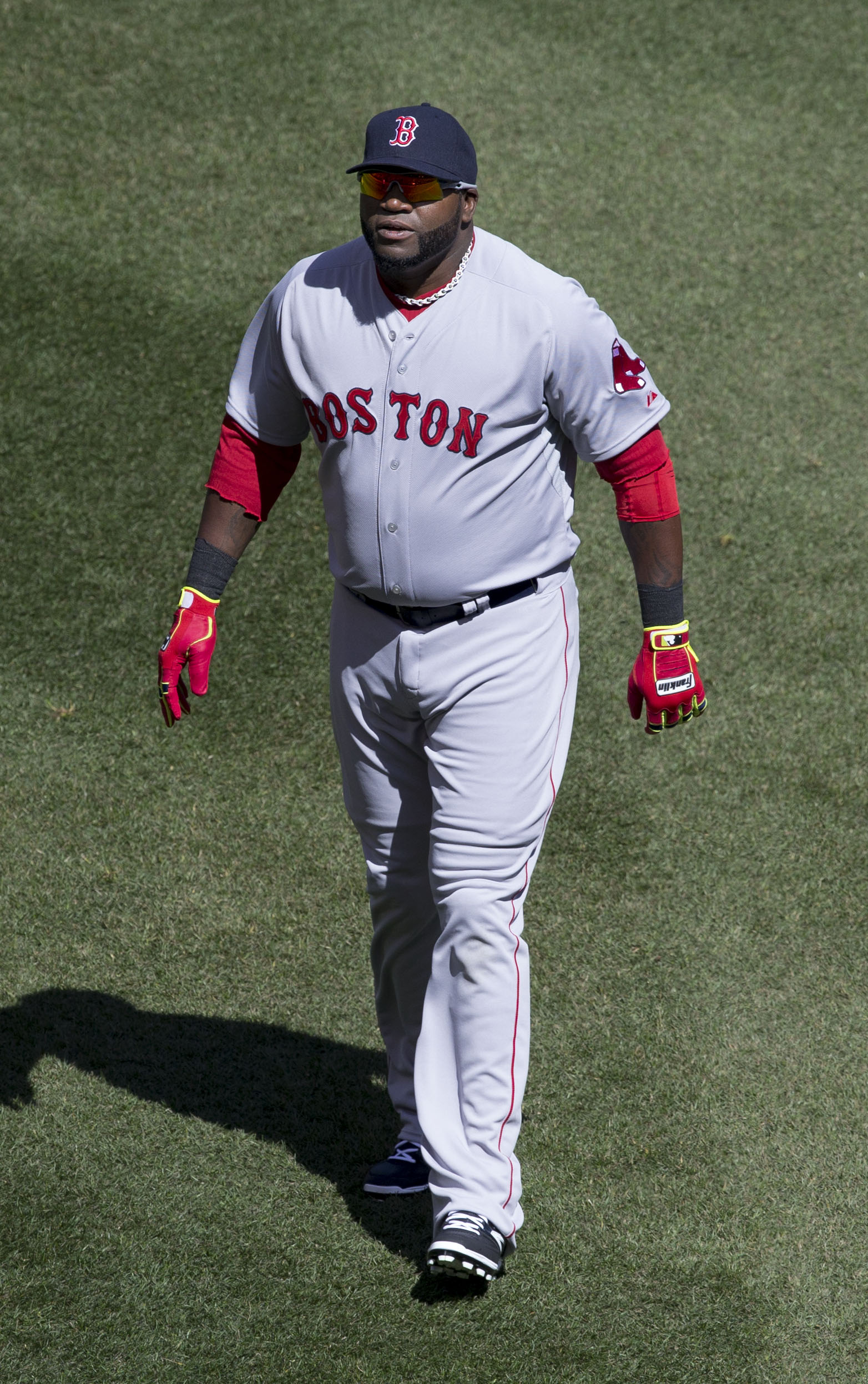 RedSox at Orioles 31/3/14